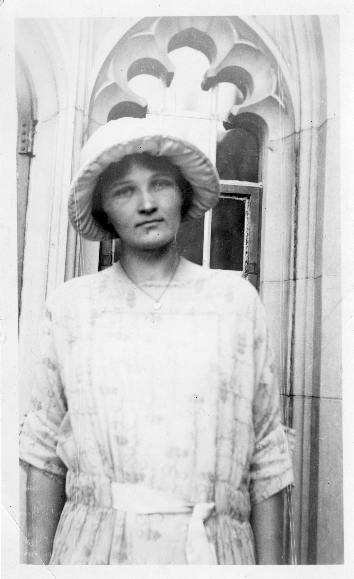 Subject: Gaposchkin, Cecilia Helena Payne 1900- Harvard College Observatory Type: Black-and-white photographs Topic: Astrophysics Women scientists Local number: SIA Acc. 90-105 [SIA2009-1328] Summary: Cecilia Helena Payne Gaposchkin (1900-1979), astrophysicist at Harvard College Observatory, was known for her research on stellar spectra Cite as: Acc. 90-105 - Science Service, Records, 1920s-1970s, Smithsonian Institution Archivess Persistent URL:Link to data base record Repository:Smithsonian Institution Archives View more collections from the Smithsonian Institution.